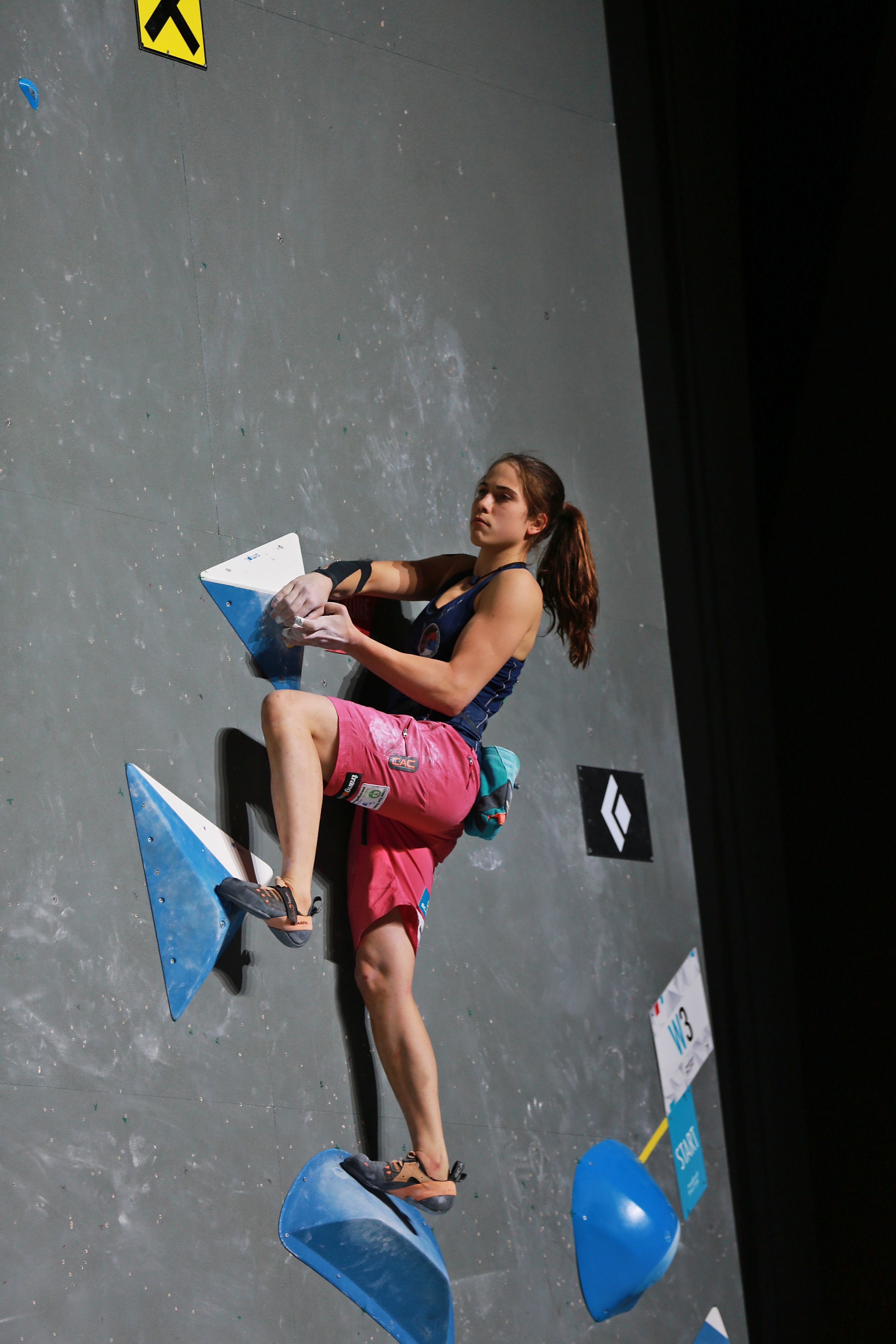 Climbing World Championships 2018 Boulder Final Gejo